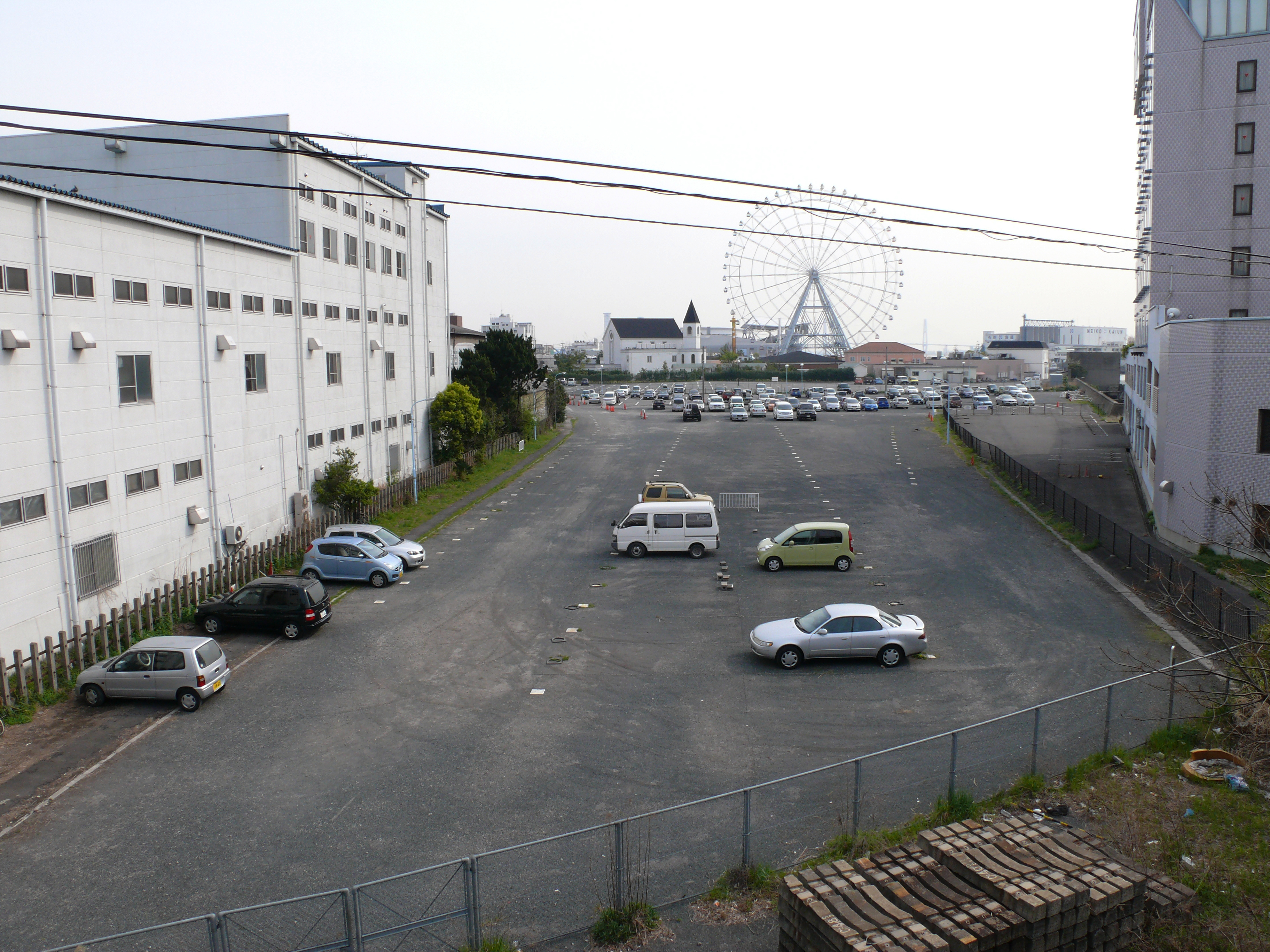 Japan Freight Railway Company Nagoya-Minato Station